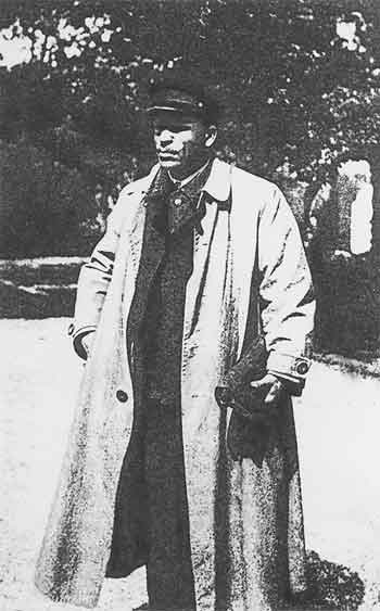 Komissar of Sebastopol Soviet in 1917-1918 Filipp Zadorozhniy who was chief jailer of members of Romanov family in Crimea during 1917-1918